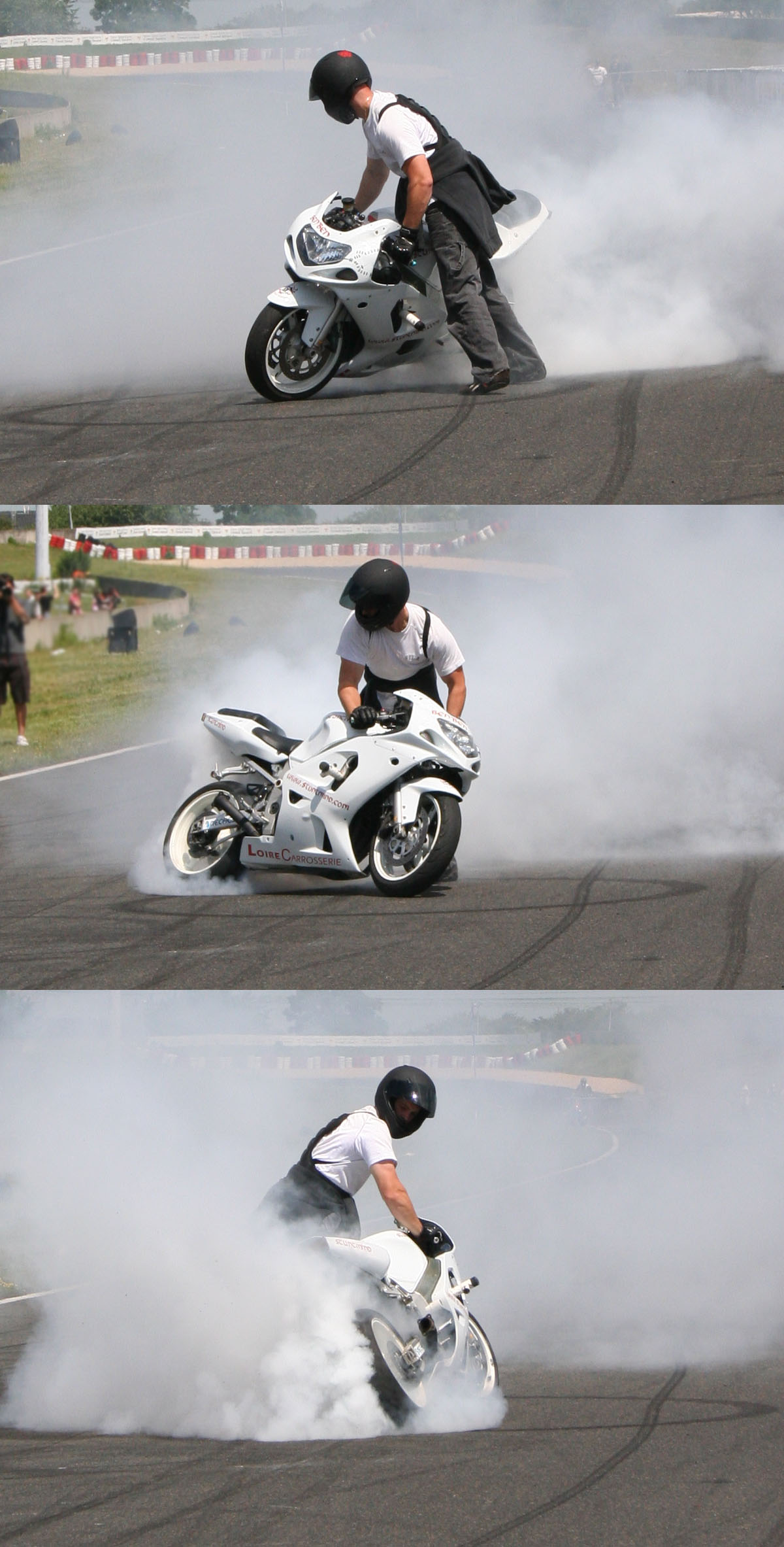 burn out, during the Stunt Bike Show (Carole Racetrack, France)